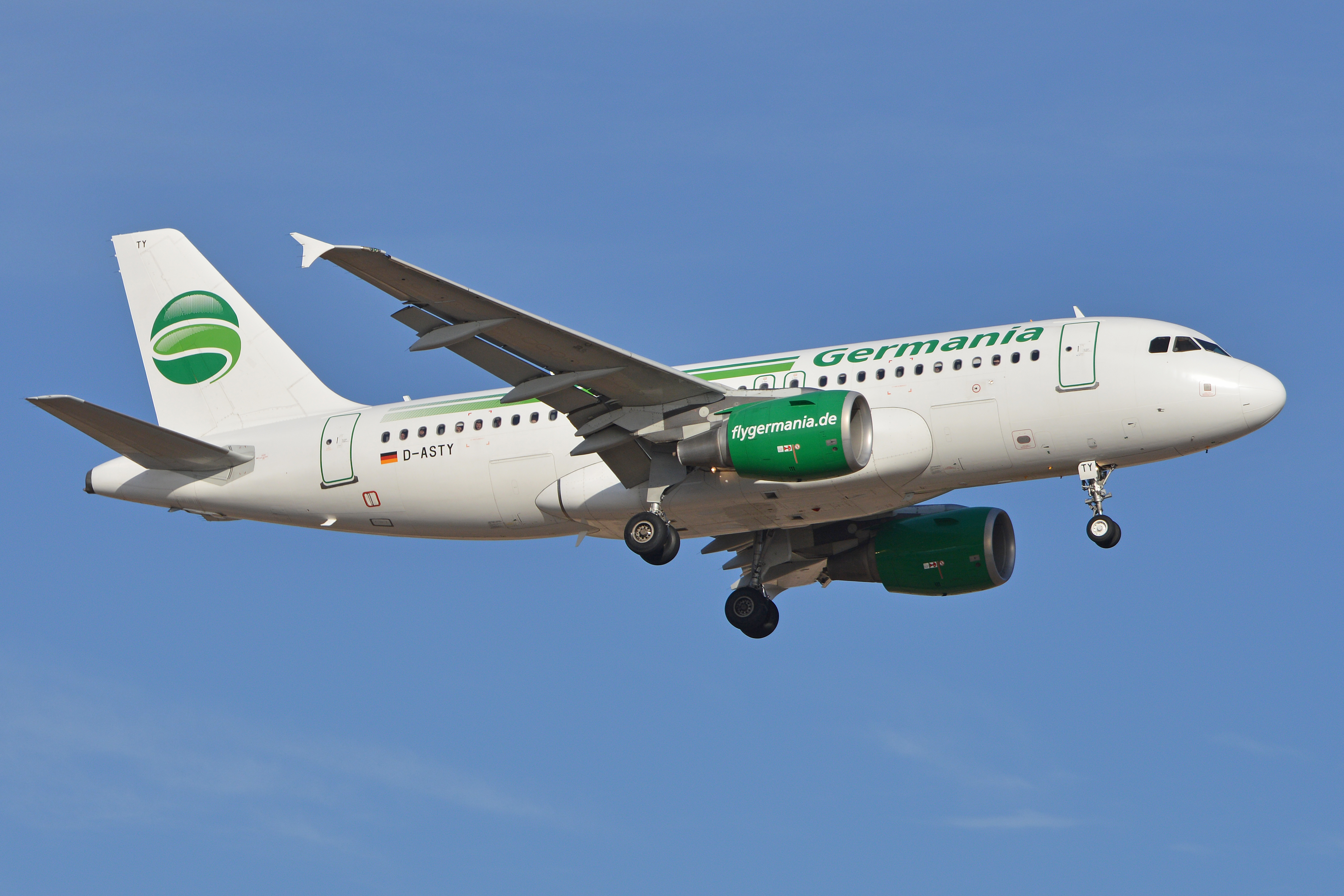 c/n 3407. Built 2008. Arriving on flight GMI6230 from Bremen. Tenerife South Airport, Tenerife. 17-1-2016